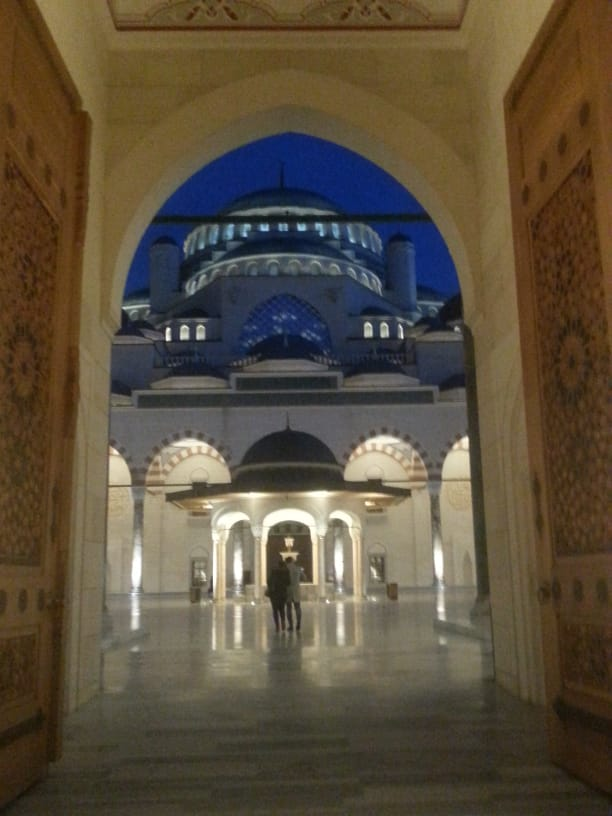 This photo has been taken in the country: Turkey